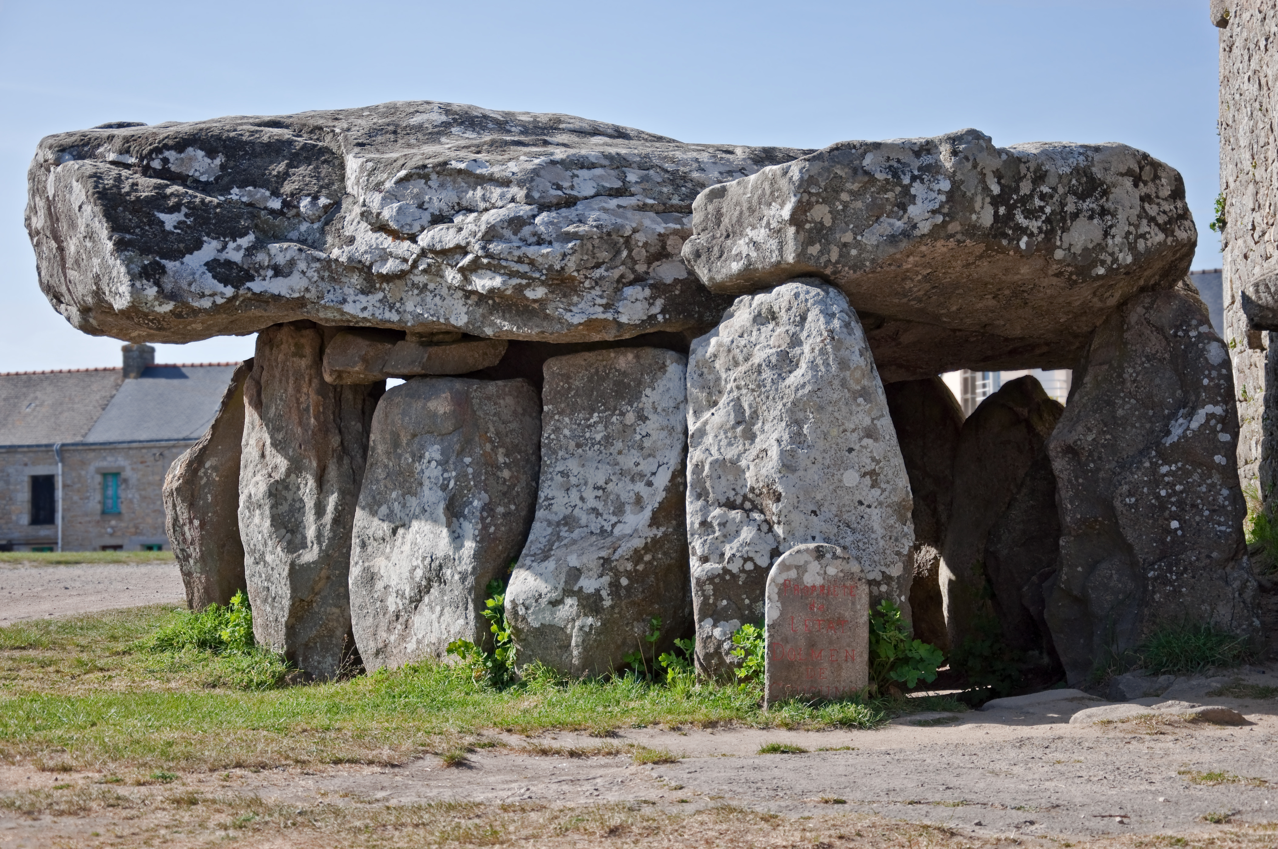 Crucuno dolmen, in Plouharnel (Morbihan, Brittany, France). This is thought to be a burial chamber. It has a 40 ton cap stone on the top. It is dated 4000BC. This was originally located in the 19th century by reading engravings of a very long passage. This information is noted in a sign posted at the site itself.